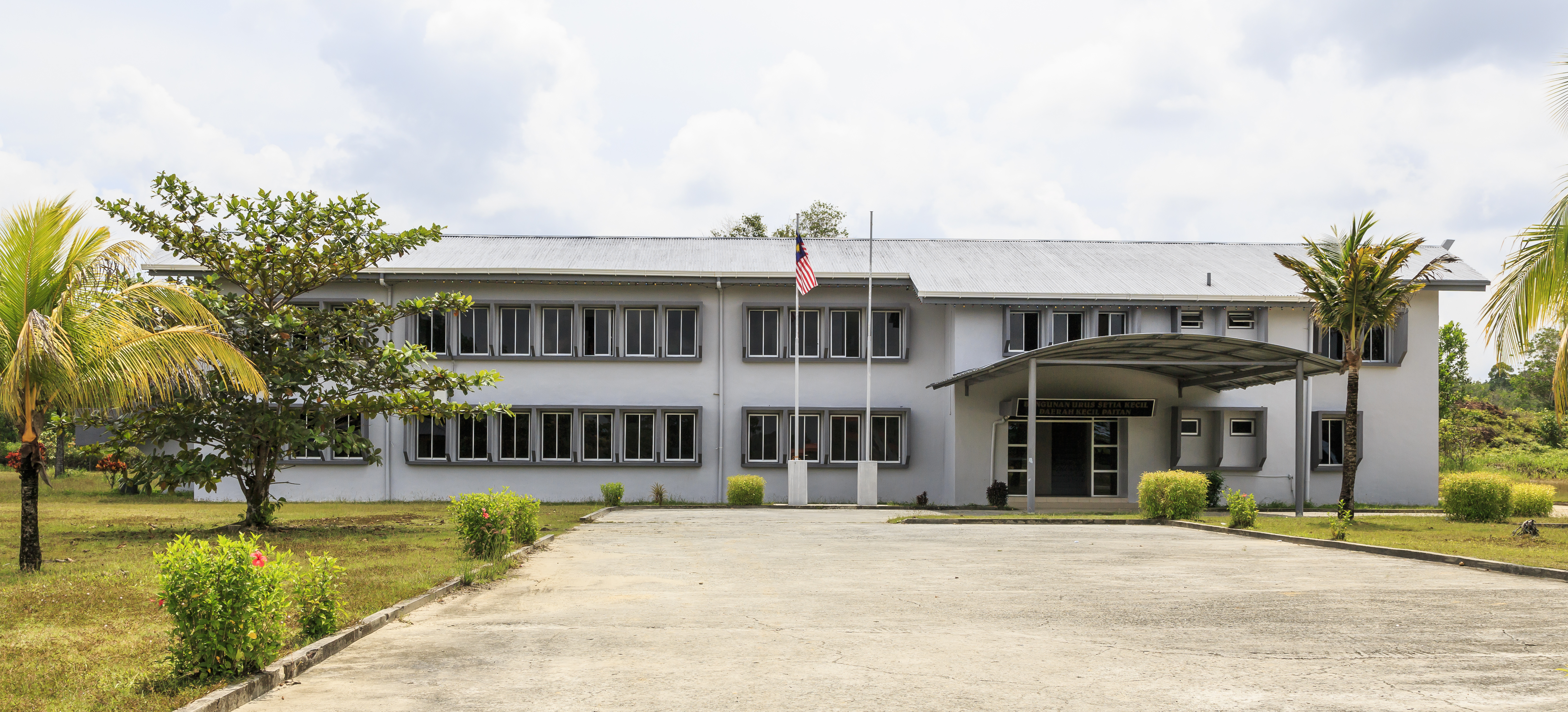 Paitan, Sabah: Bangunan Urus Setia Kecil Daerah Kecil Paitan